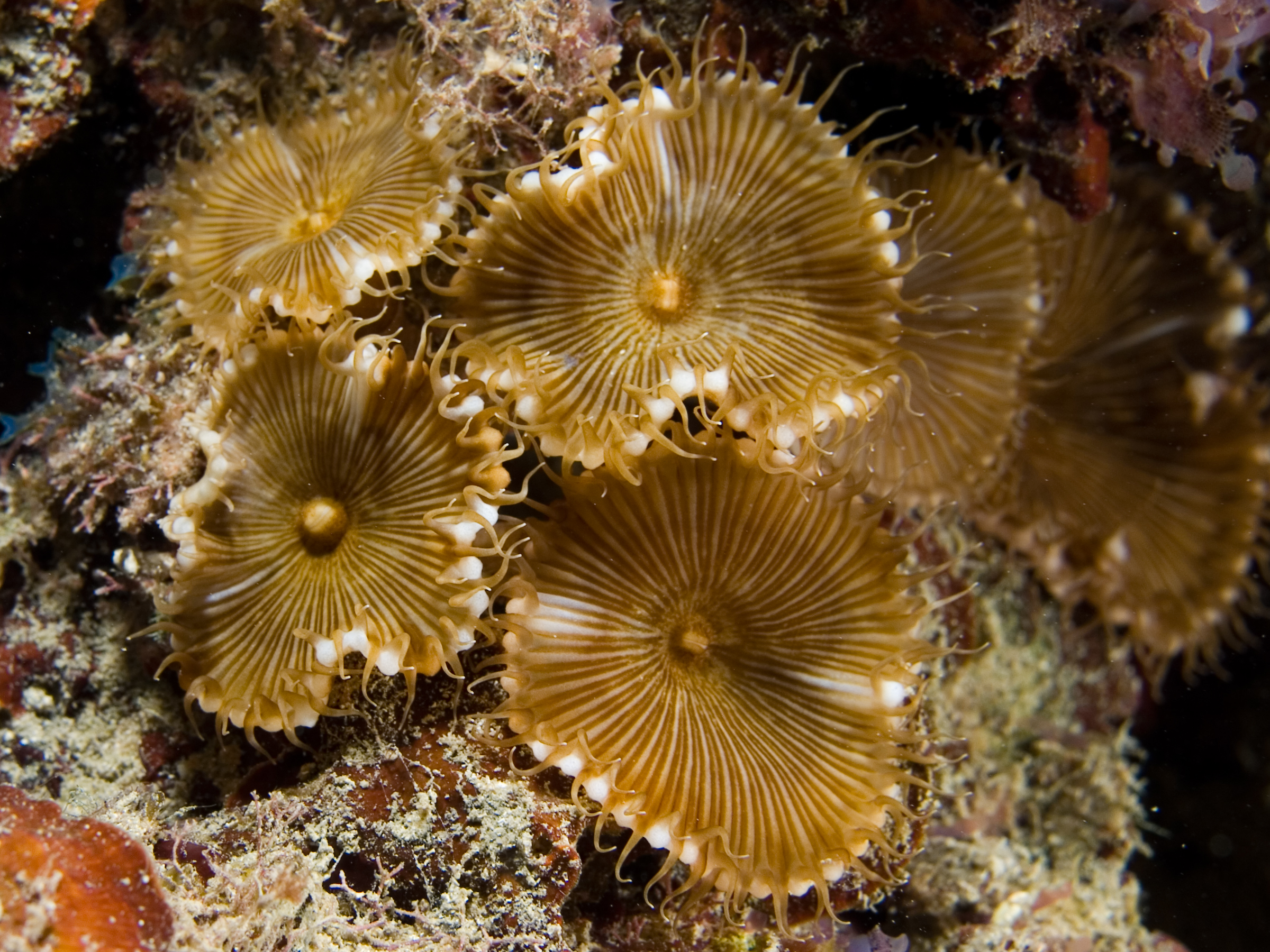 Palythoa grandis (Sun Zoanthids)